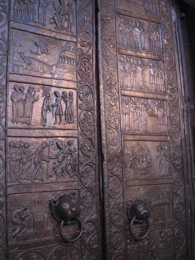 Gniezno Doors